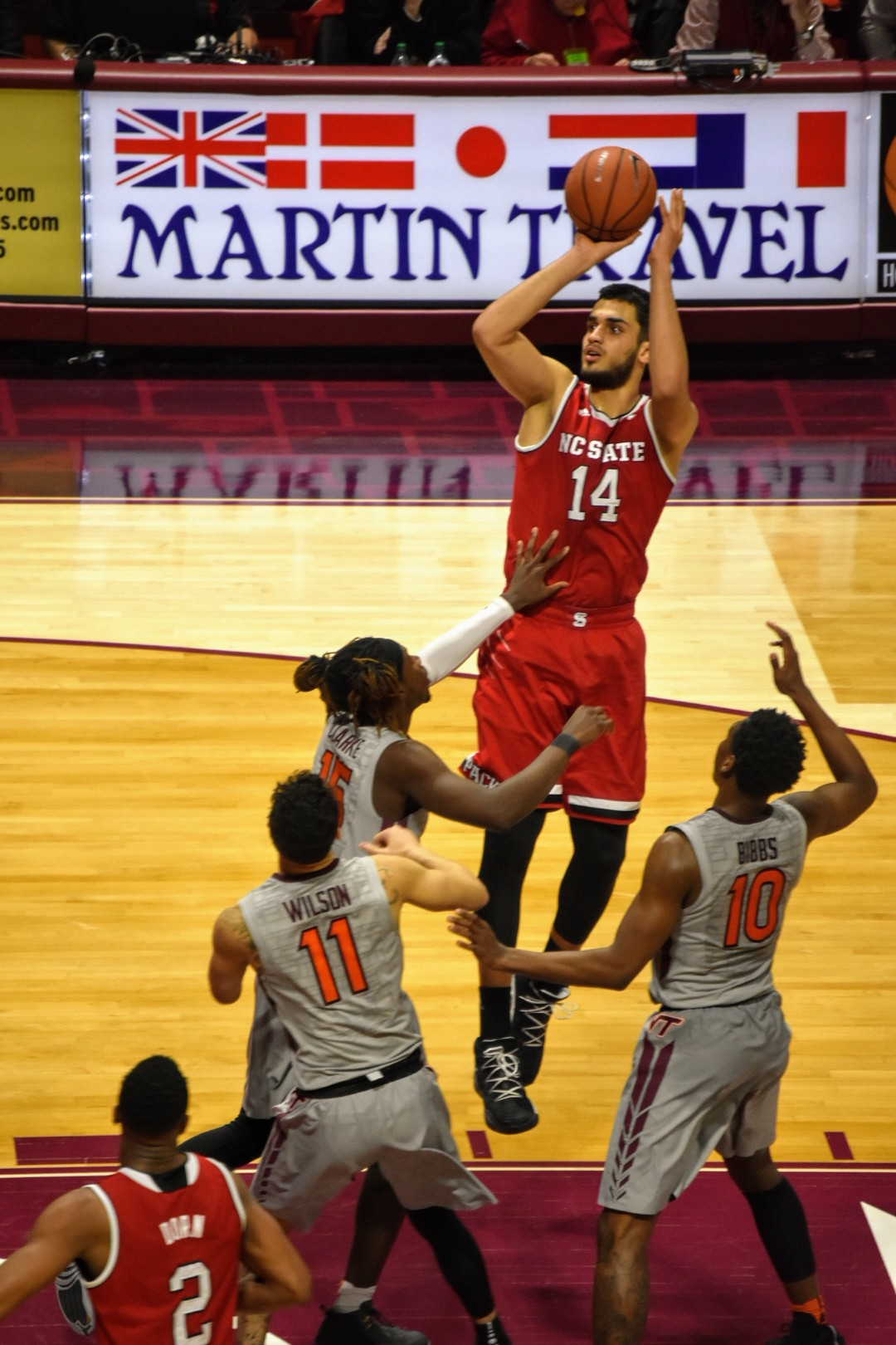 Omer Yurtseven with the jumper for the Pack